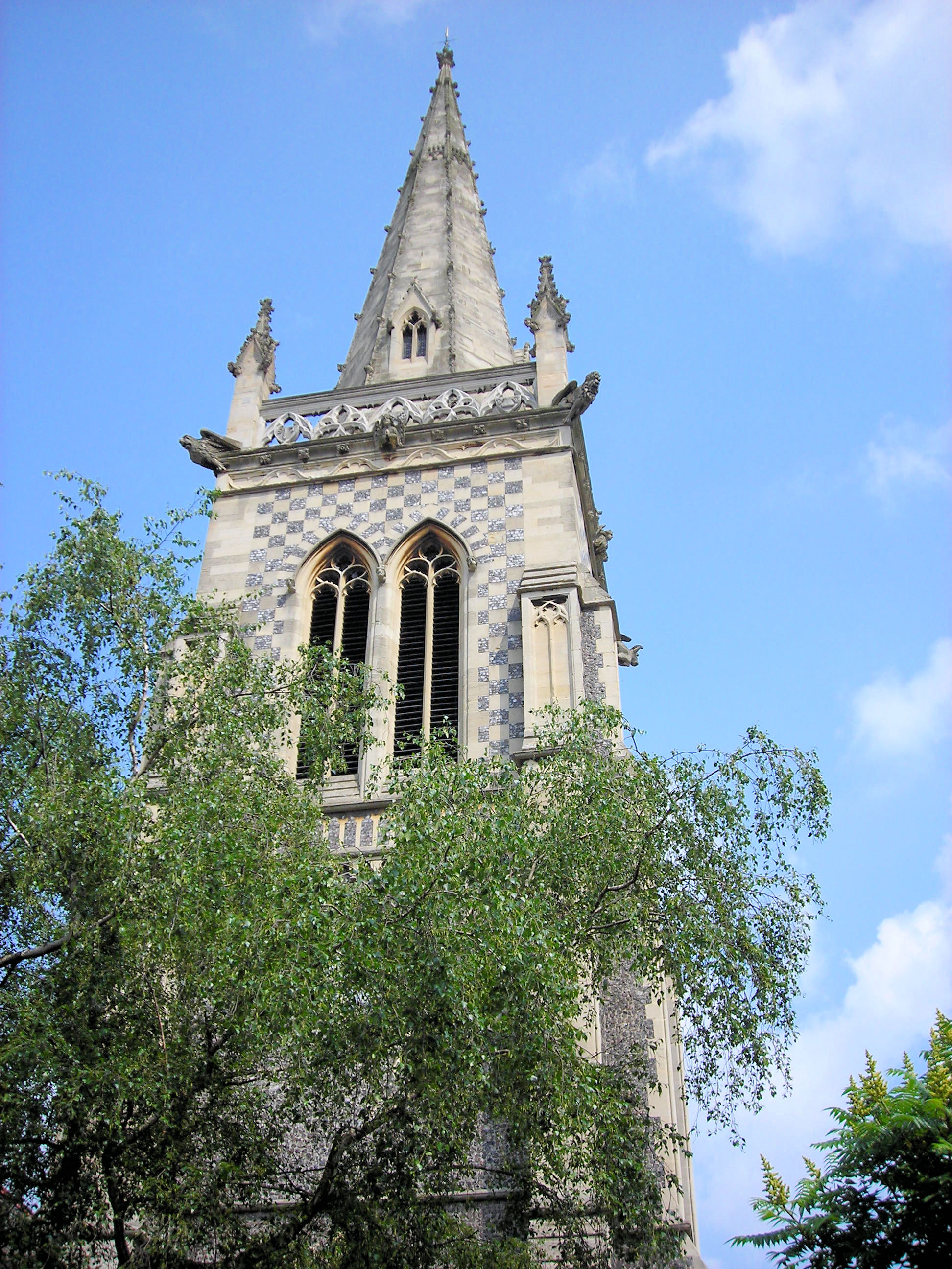 Southwest tower of St Mary-le-Tower parish church, Ipswich, Suffolk